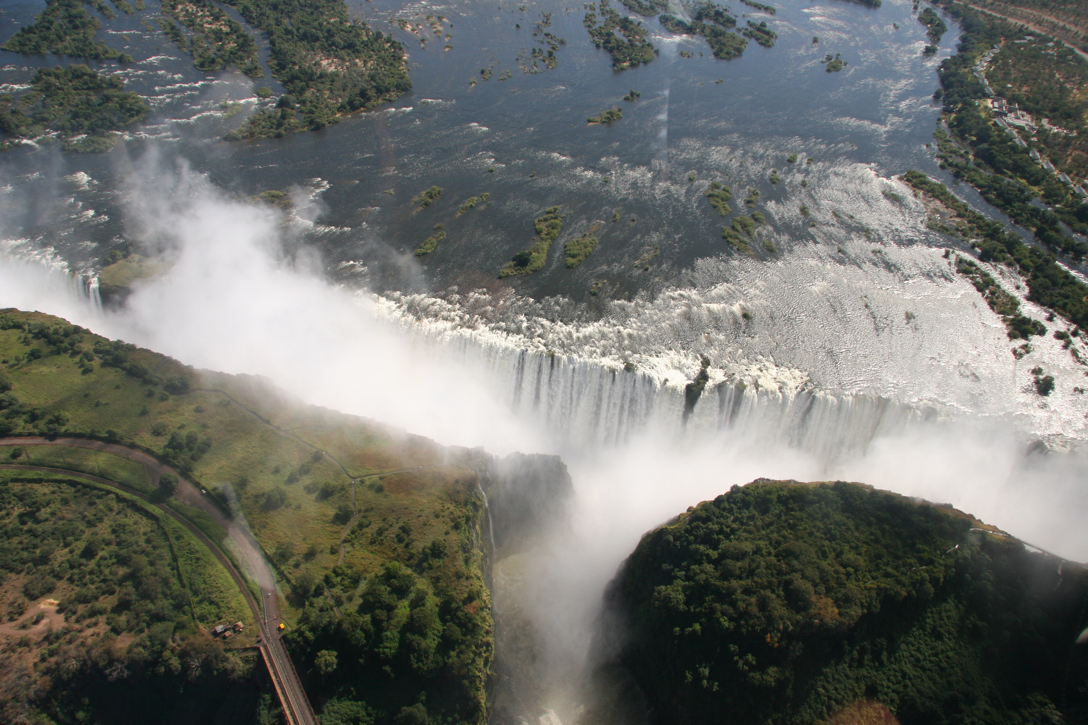 Victoria Falls, photo taken from a helicopter